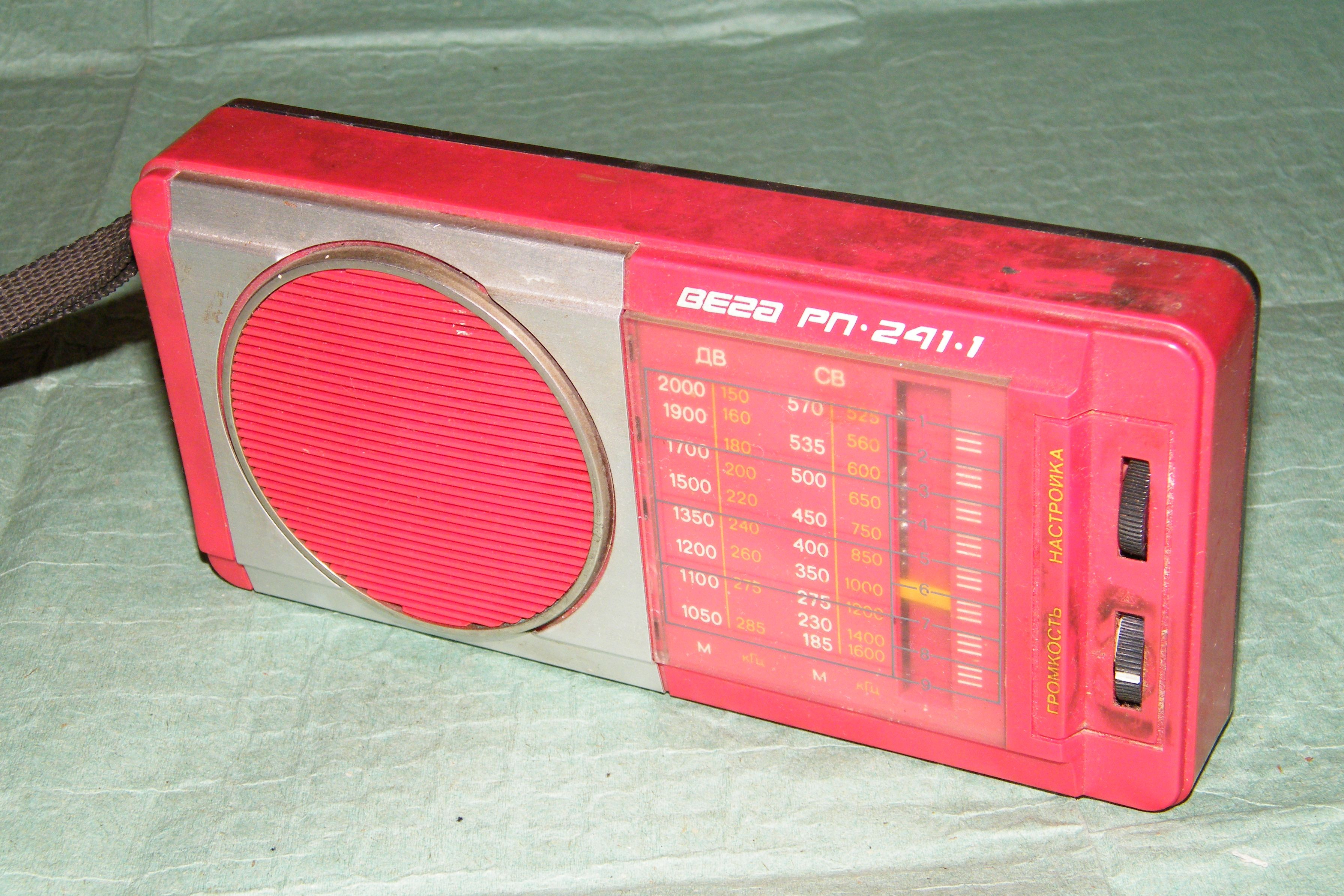 Vega RP-241-1 portable broadcast receiver, USSR, Vega Production Union, Berdsk, 1980s